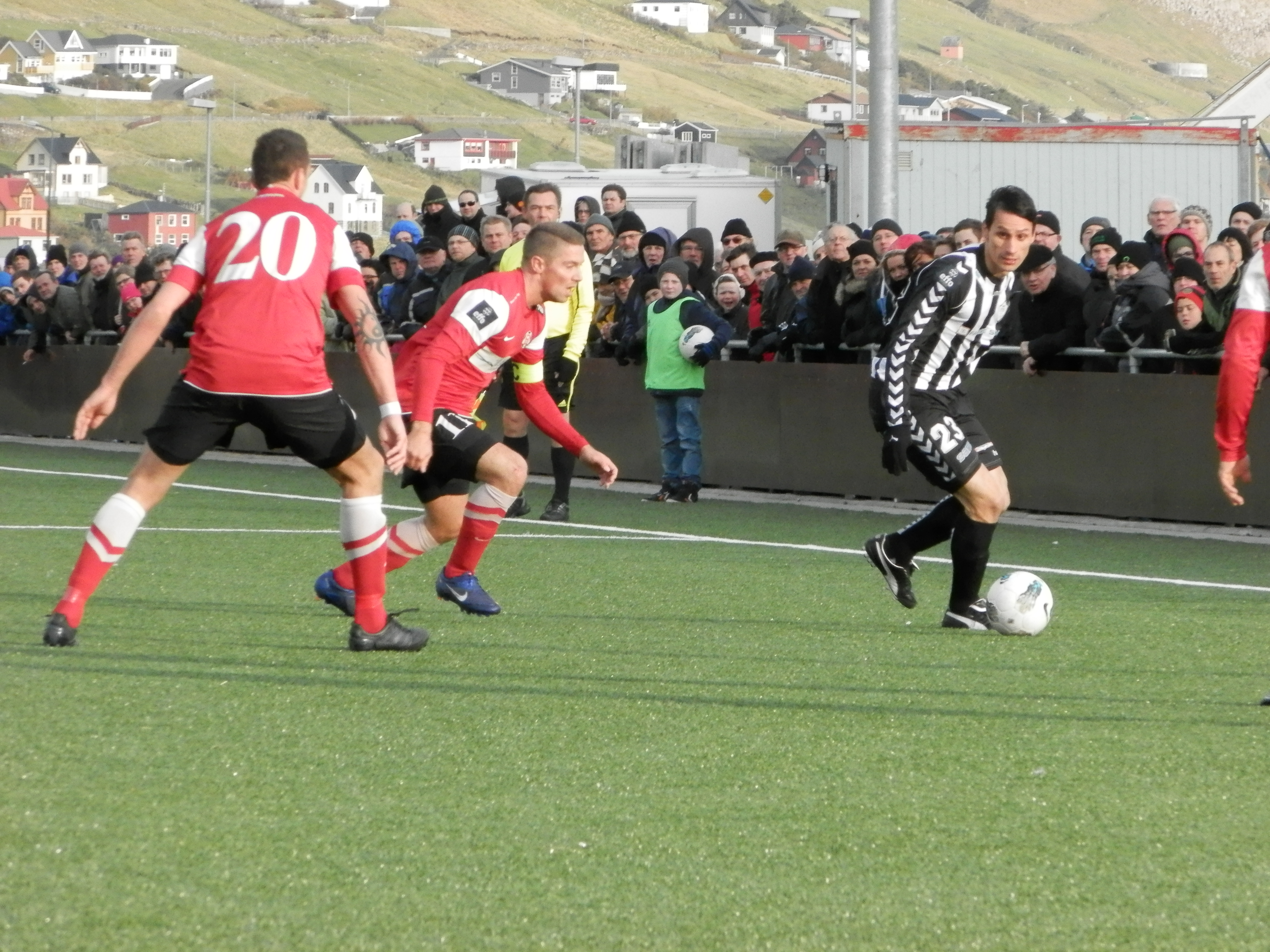 Football (soccer) match in Effodeildin (the men's best division of the Faroe Islands) between TB Tvøroyri and B68 Toftir. This was the final round of Effodeildin. Both these teams could be relegated, TB if they lost with four or more goals and B68 if they didn't win with at least four goals. The match got very exciting at towards the end, TB Tvøroyri had scored one goal and B68 none, but suddenly B68 started to score, and not only one but four goals, and now there was only one goal that could change everything, with three minutes to go. B68 scored their fourth goal in the 91 minute, the referee had added four minutes to the match. B68 didn't manage to get one more goal, and the TB players were very happy, not to be relagated to the second best division, and B68 players were devastated, even if they had just won 4-1, it was not enough. The player in black/white on this photo is the manager of TB Tvøroyri, Milan Kuljic, he is a Serbian player/manager, who has been playing football in the Faroe Islands for several years now. Føroyskt: Seinasta umfar í Effodeildini, sum varð leikt 6. oktober 2012. Henda myndin er frá dystinum millum TB og B68, sum var avgerðandi fyri bæði liðini, sum kappaðust um ikki at flyta niður í 1. deild. TB hevði betri møguleikar undan dystinum, tí teir høvdu betri málúrtøku. B68 skuldi vinna við í minsta lagi fýra málum, men tað kláraðu teir akkurát ikki, teir vunnu dystin 4-1, men tað var ikki nokk til at vera verandi í deildini, so teir spæla í 1. deild í 2013, meðan TB heldur fram í Effodeildini.